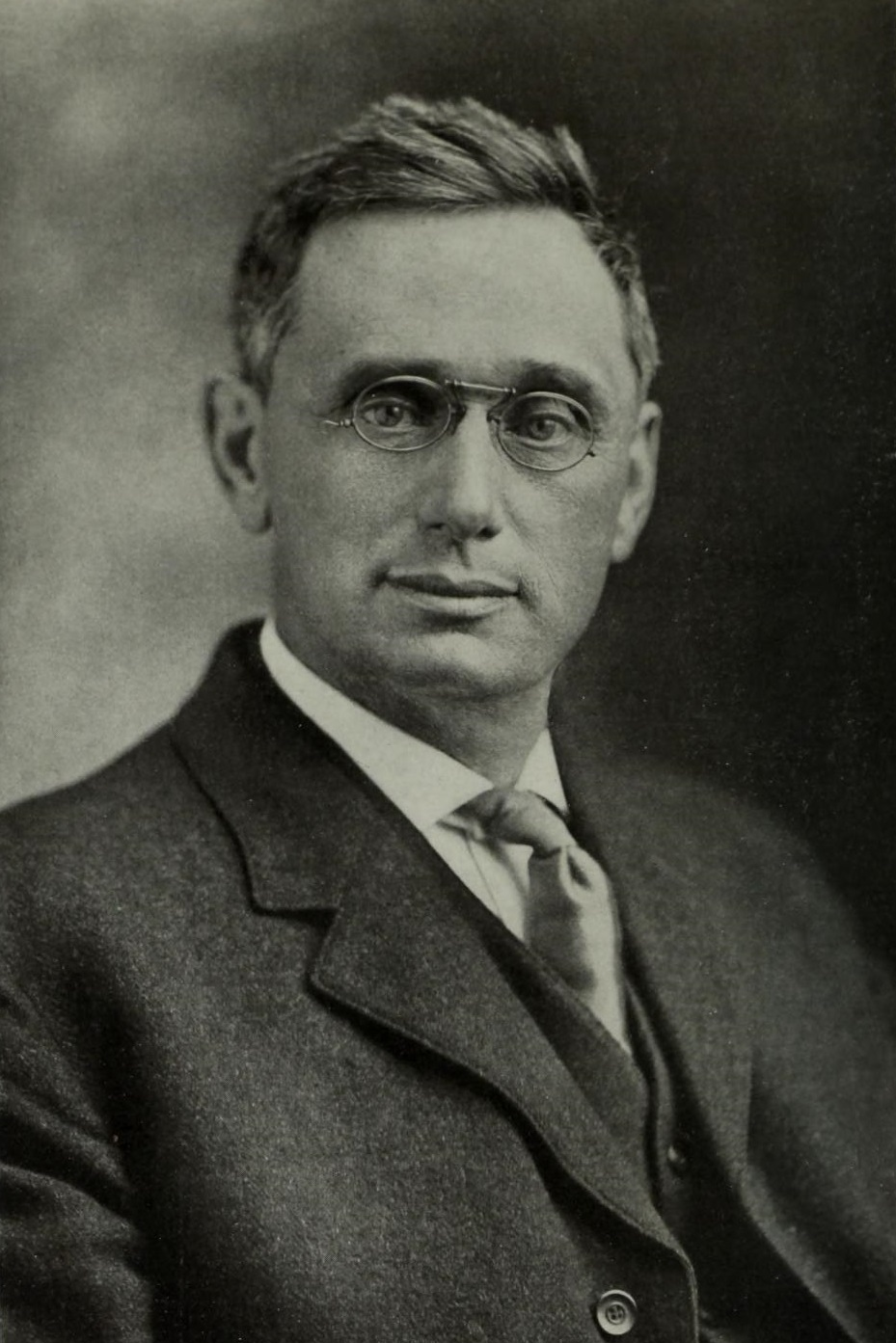 Picture of Louis Brandeis